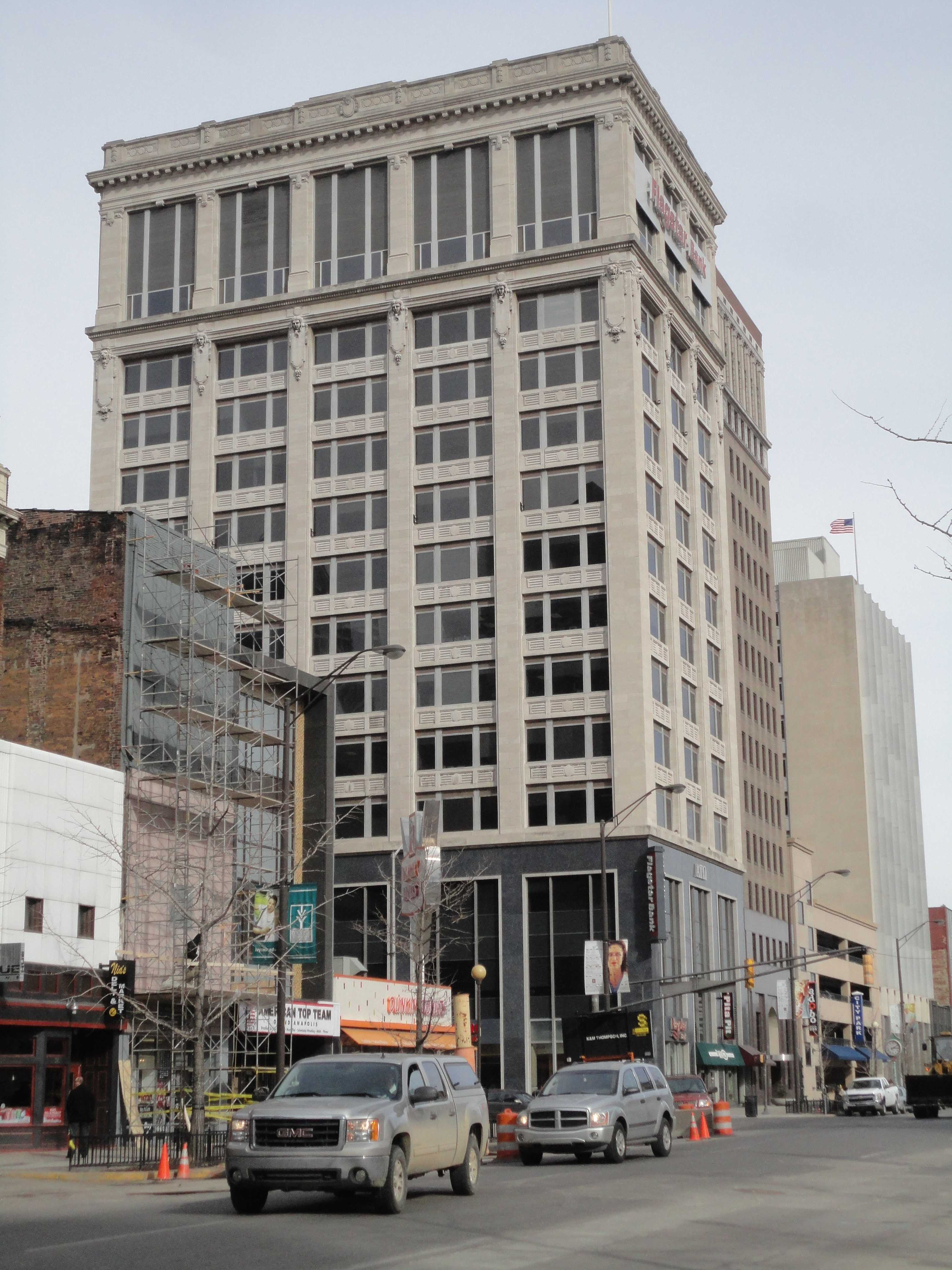 Old Downtown Indy